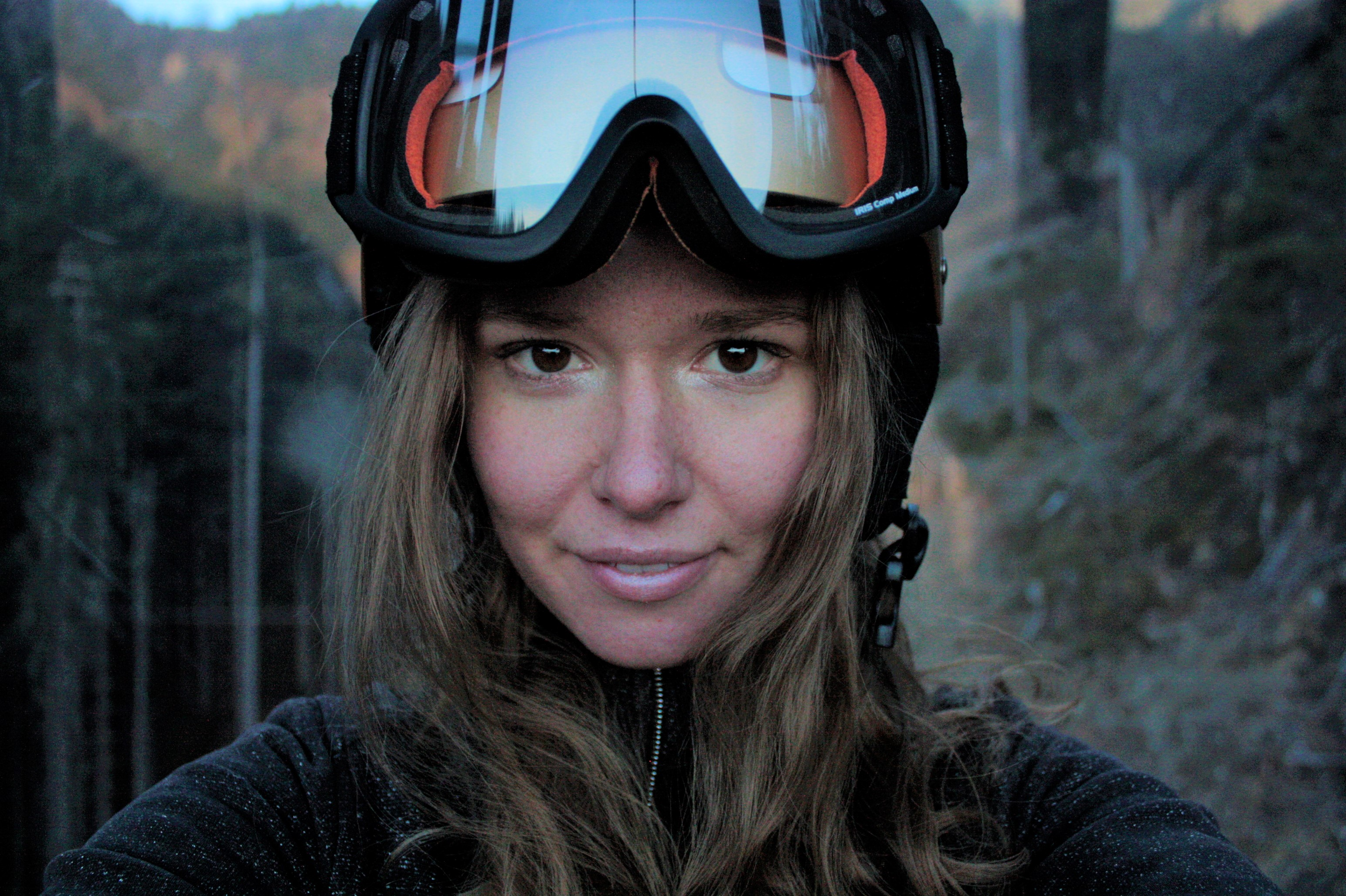 Ieva